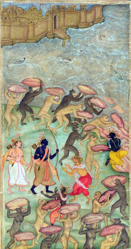 Razmnama : Mahabharata's Persian translation by Akbar